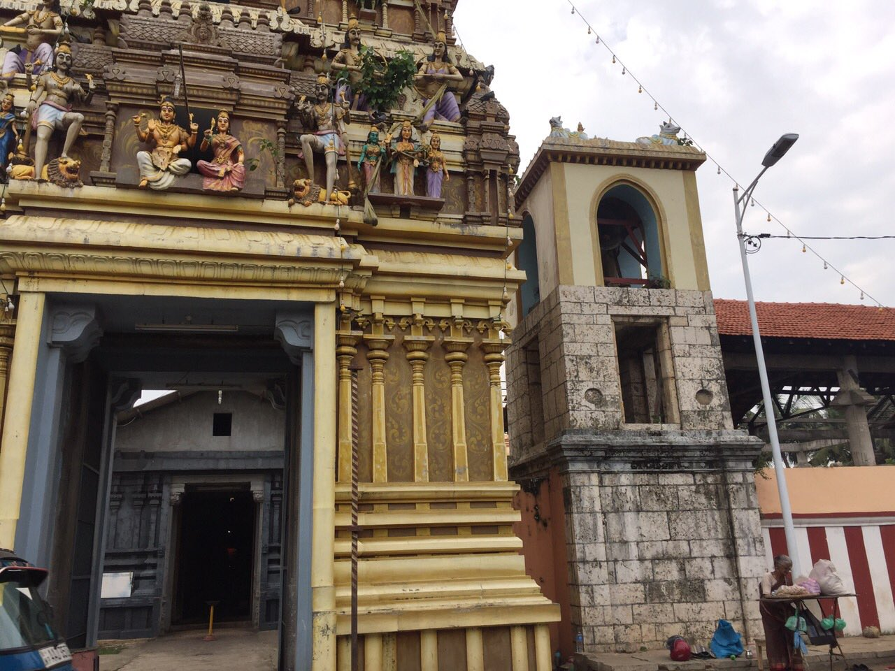 Sivan Kovil Mani Kopuram.